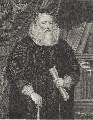 Cleaned up version of print of Sir Julius Caesar